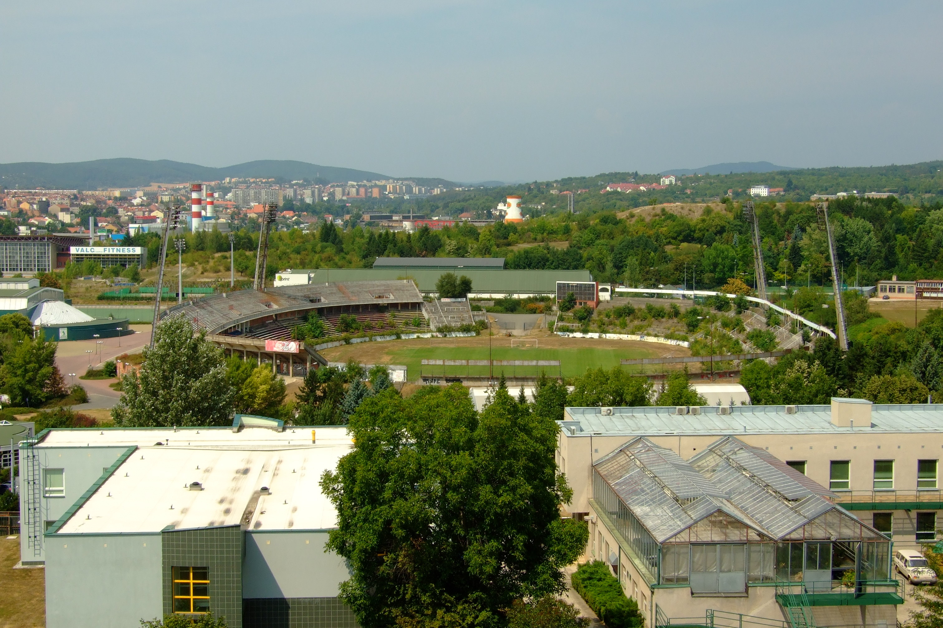 Brno-Ponava - Football stadium "Za Lužánkami", from south